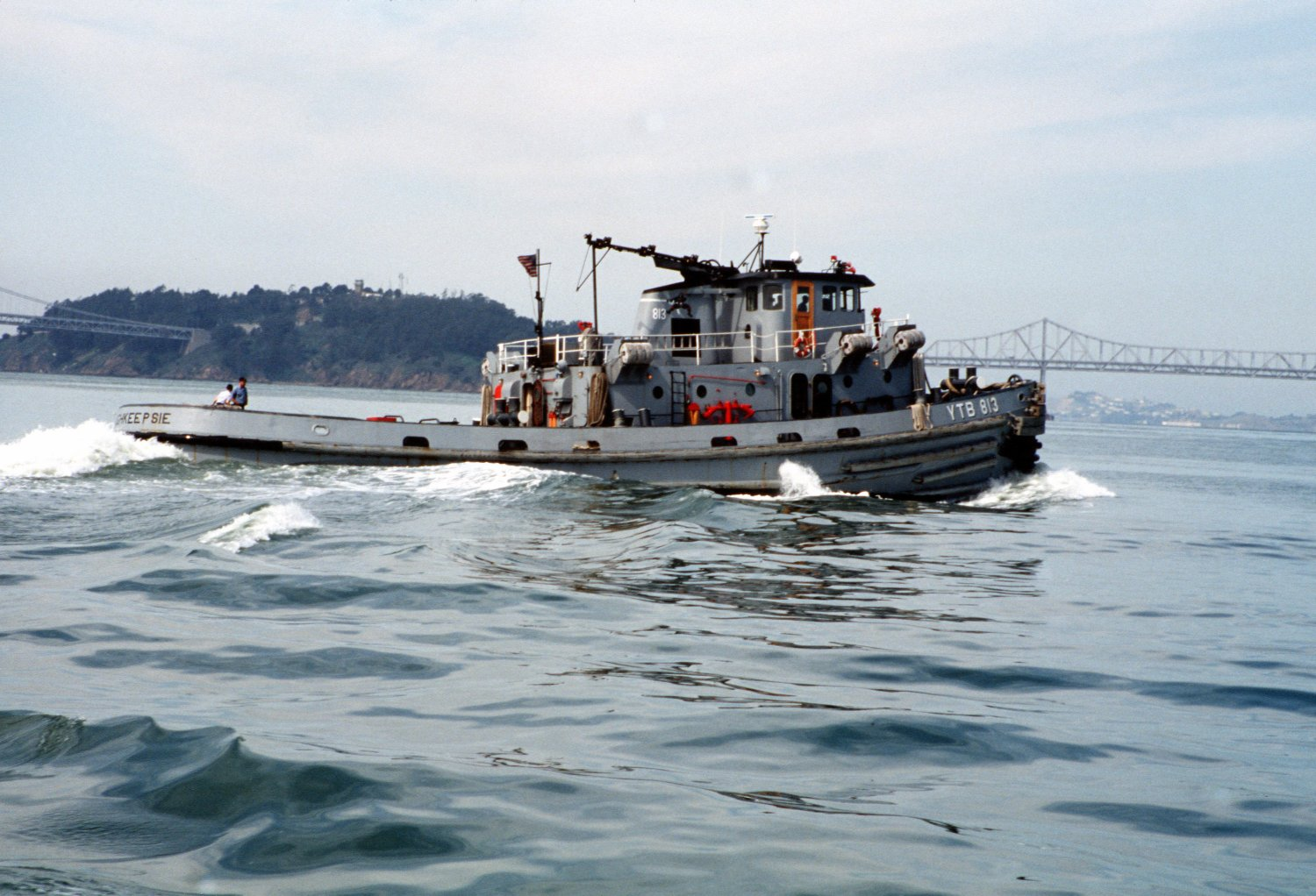 Poughkeepsie (YTB-813) heads for Naval Station Treasure Island, CA. after escorting Louisville (SSN-724) into prot at Naval Air Station Alameda, CA., 11 March 1992. DVIC photo # DN-ST-92-06785 by PH2 Geoffrey L. England, a US Navy photo now in the collections of the Defense Visual Information Center